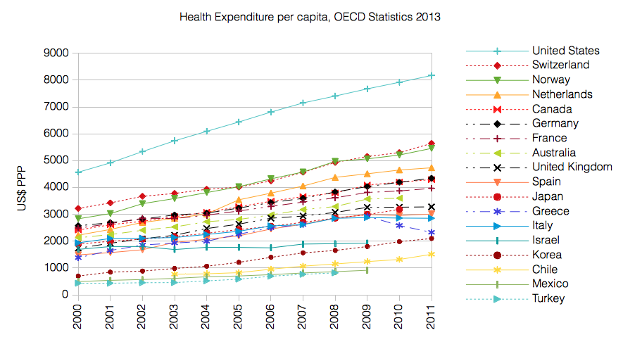 PNG file showing diagram about Health Expenditure per capita among several OECD member nations. Data source: OECD's iLibrary, retrieved 2013-11-27[1]